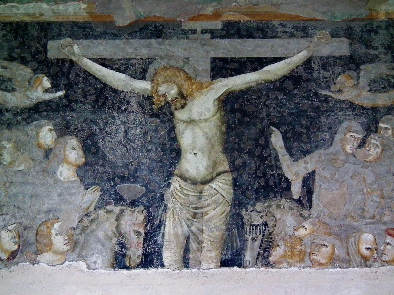 Church of the Franciscan Order Native nameFranziskanerkirche/Chiesa dei FrancescaniLocationBolzano, ItalyCoordinates46° 30′ 02.61″ N, 11° 21′ 15.03″ E